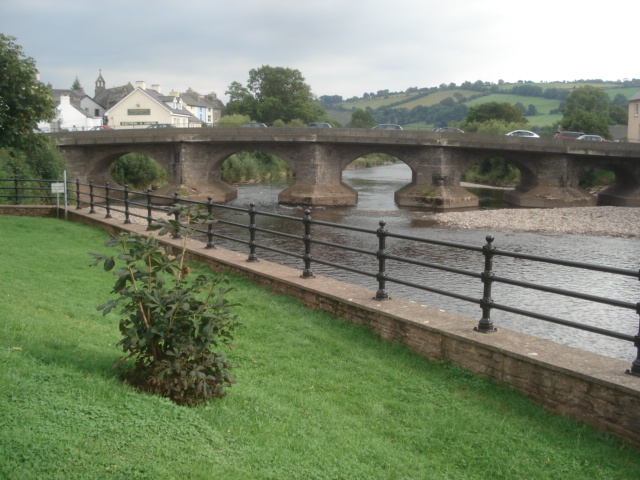 Road bridge over the river Usk Viewed from the riverside promenade.